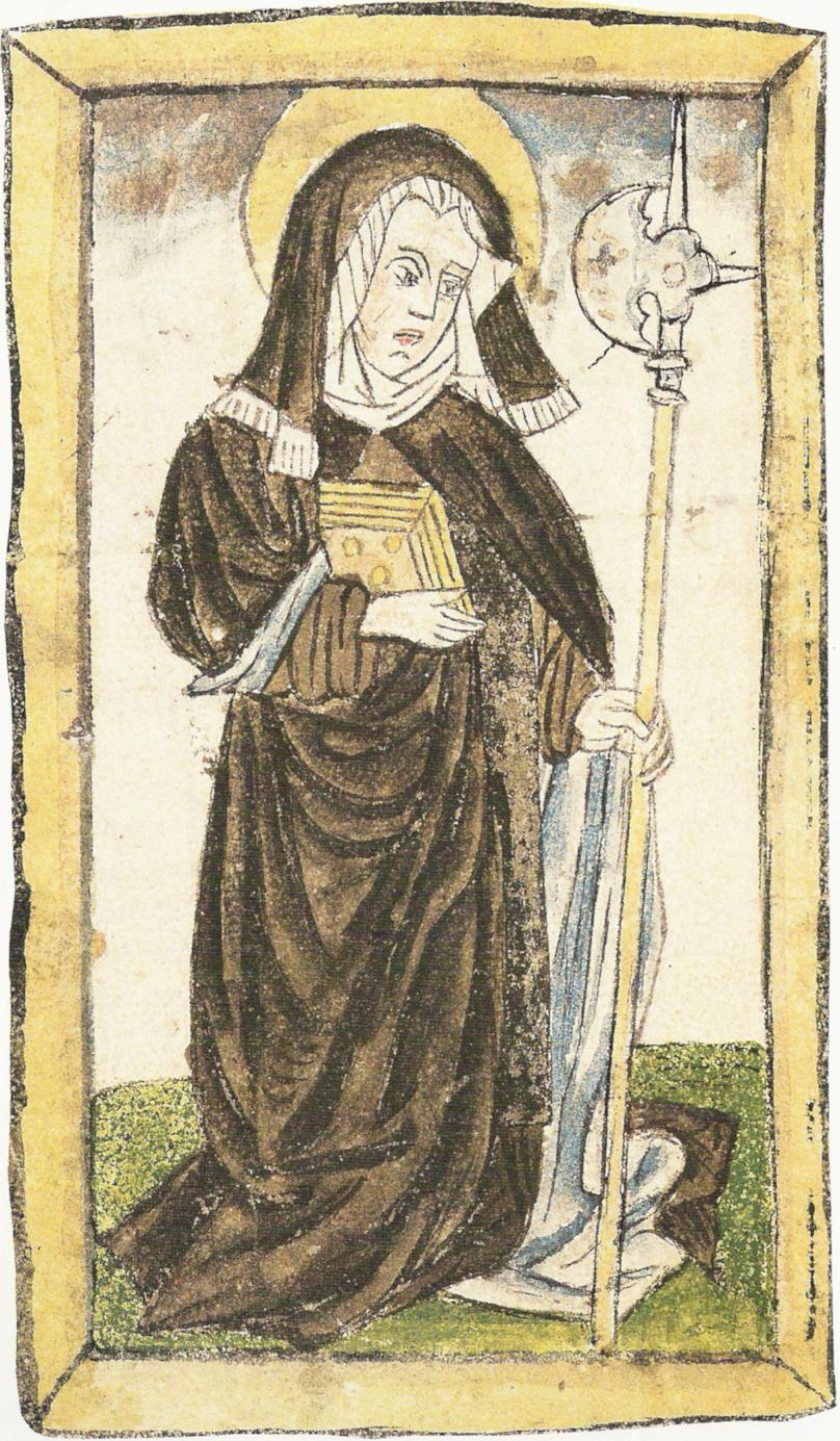 Saint Wiborada. Title miniature in the oldest German-language translation of the vita of saints from St. Gallen. Cathedral library of St. Gallen, Codex 586, S. 230